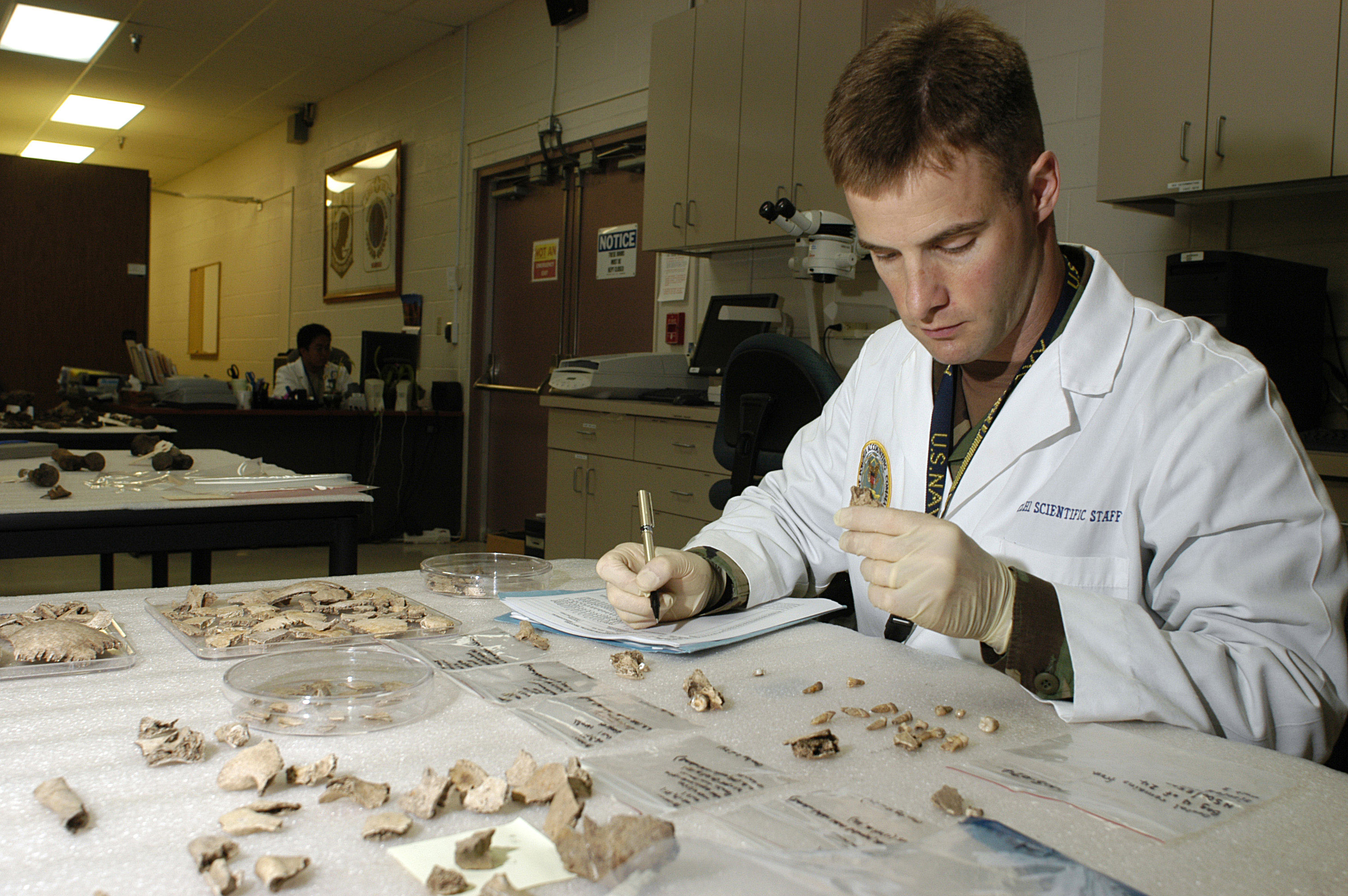 Cmdr. Kevin Torske, U.S. Navy, a senior forensic odontologist, catalogs the dental remains of a possible service member at the Joint POW/MIA Accounting Command headquarters at Hickam Air Force Base, Hawaii, on Sept. 21, 2006. The mission of the command is to achieve the fullest possible accounting of all Americans missing as a result of the nation's past conflicts.